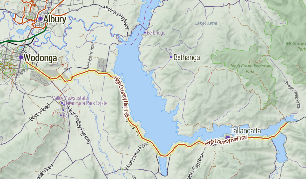 Map of the best developed section of the High Country Rail Trail. Data copyright OpenStreetMap contributors, rendered using TileMill, using a style I made.